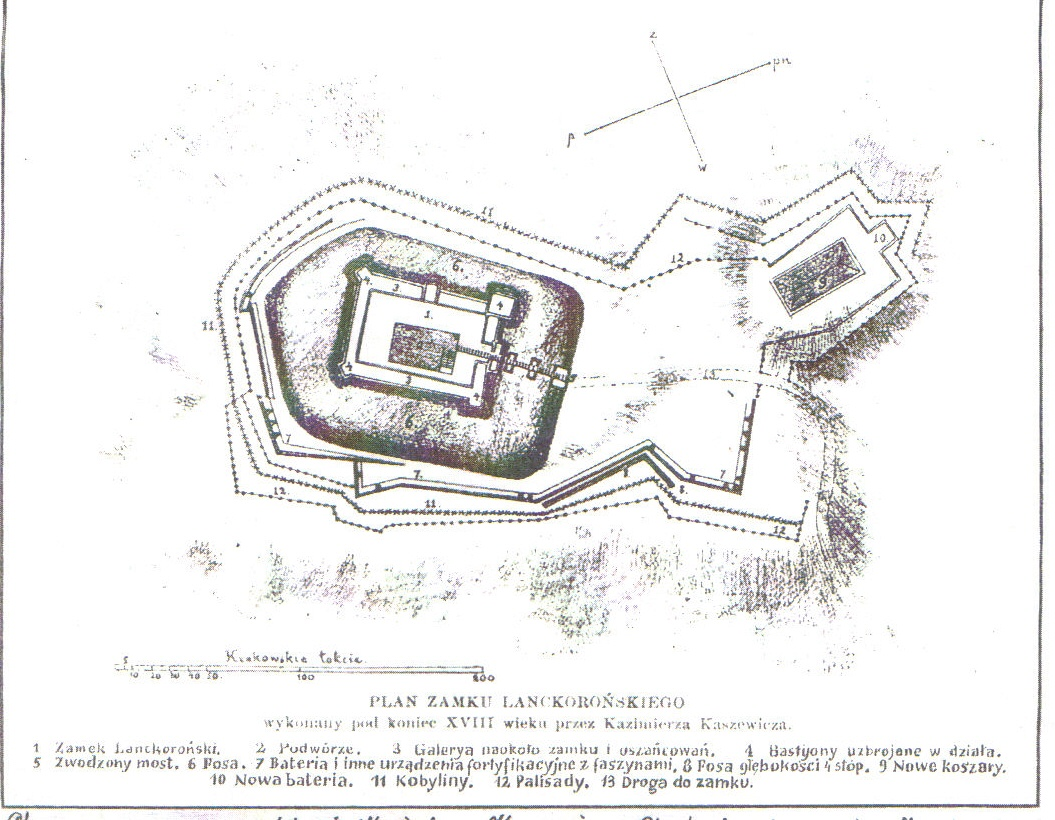 Plan castle of Lanckorona